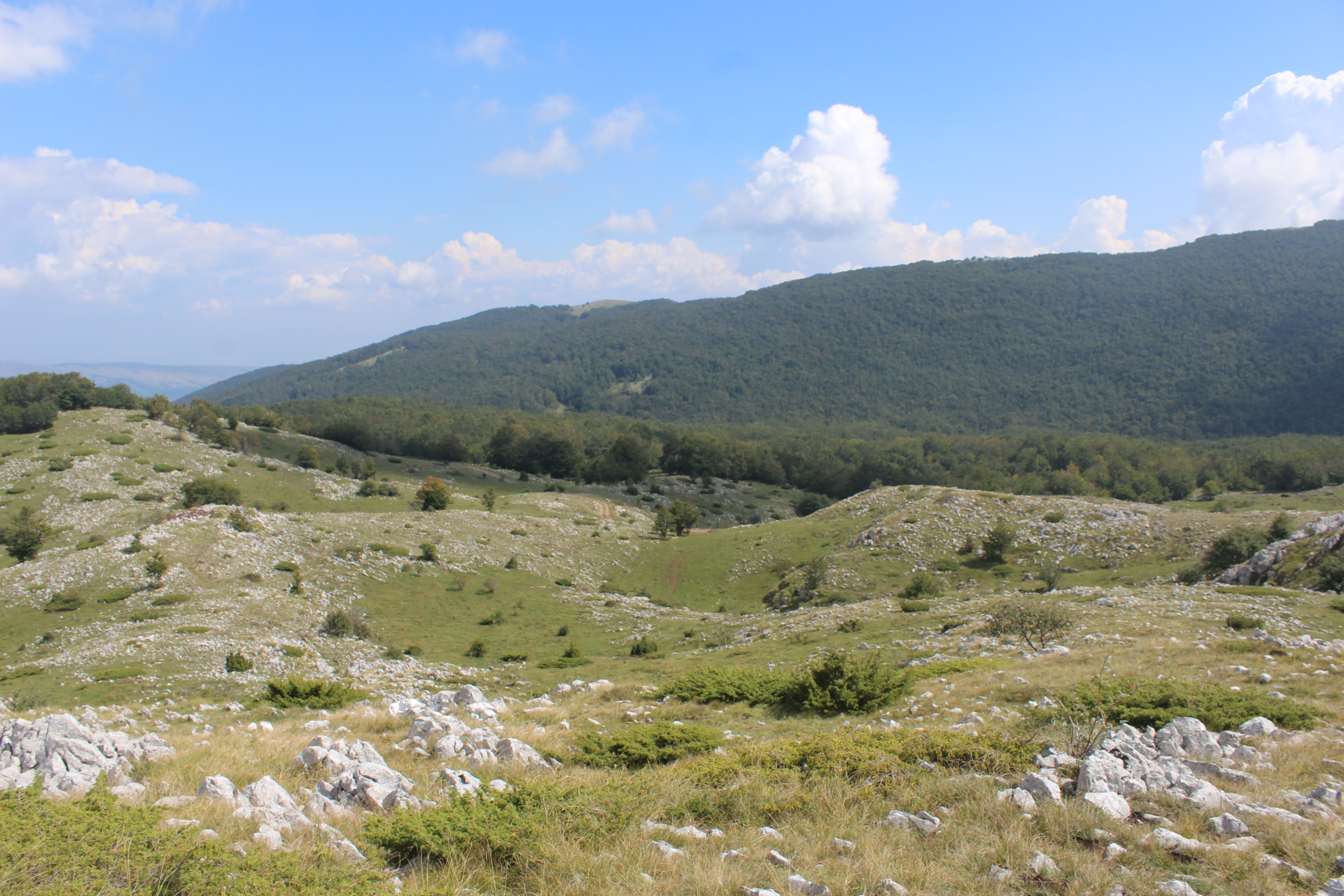 Karst formations (depressions) of a Suva mountain. Srpski (latinica): Kraški reljef (udubljenja) Suve planine.